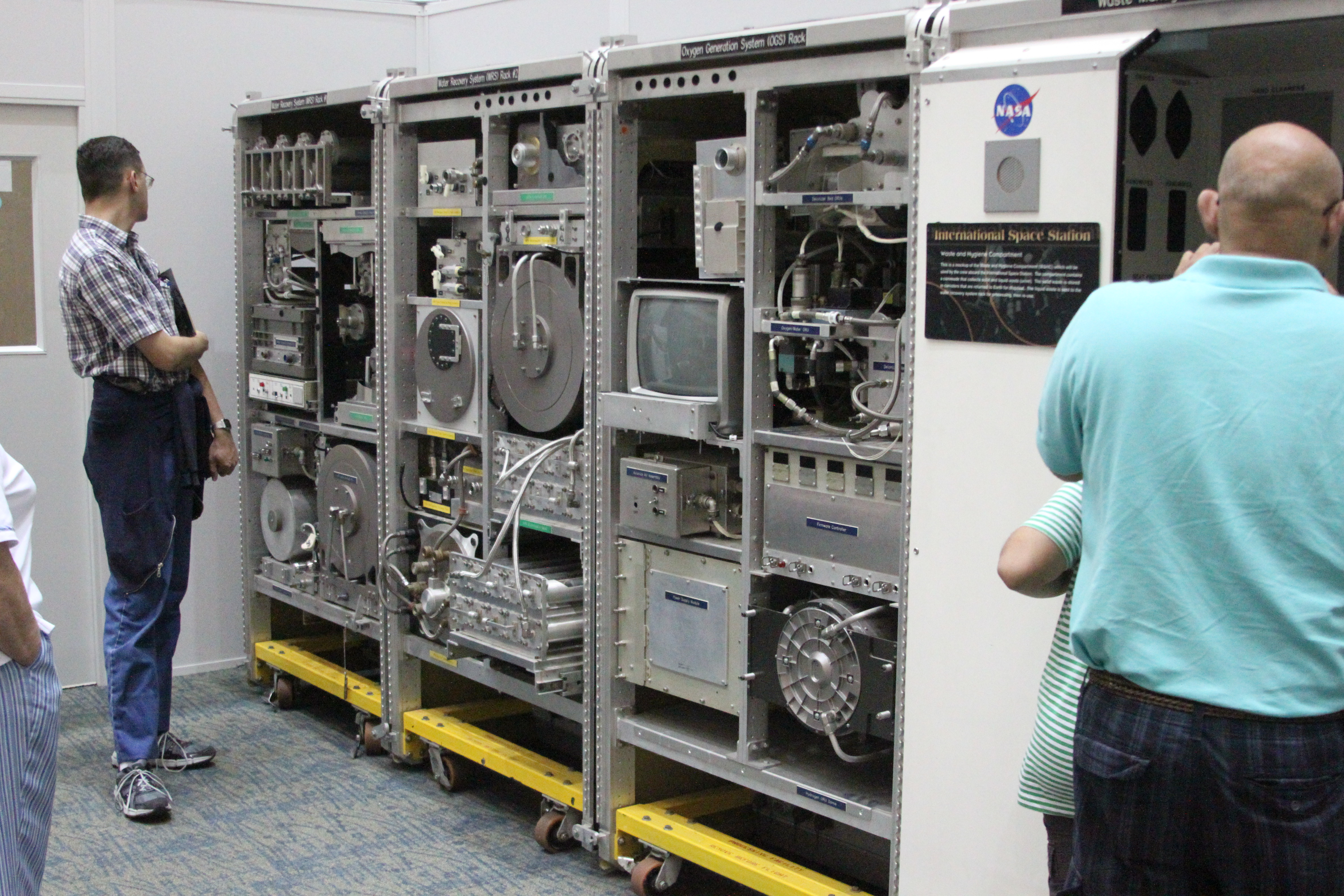 Environmental Control and Life Support System, a.k.a. bathrooms and air recycling, for the International Space Station on display at the Marshall Space Flight Center ECLSS Test Facility.